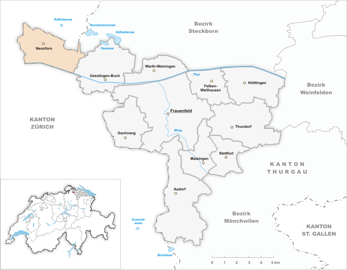 Municipality Neunforn